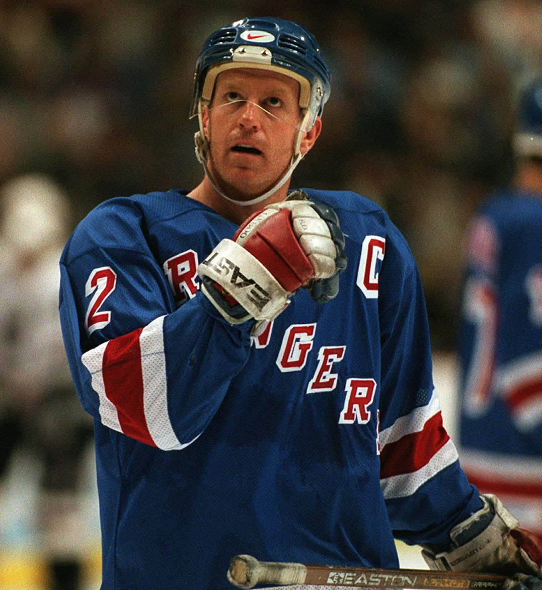 Brian Leetch, captain of the NHL's New York Rangers, during a game in Vancouver, BC.